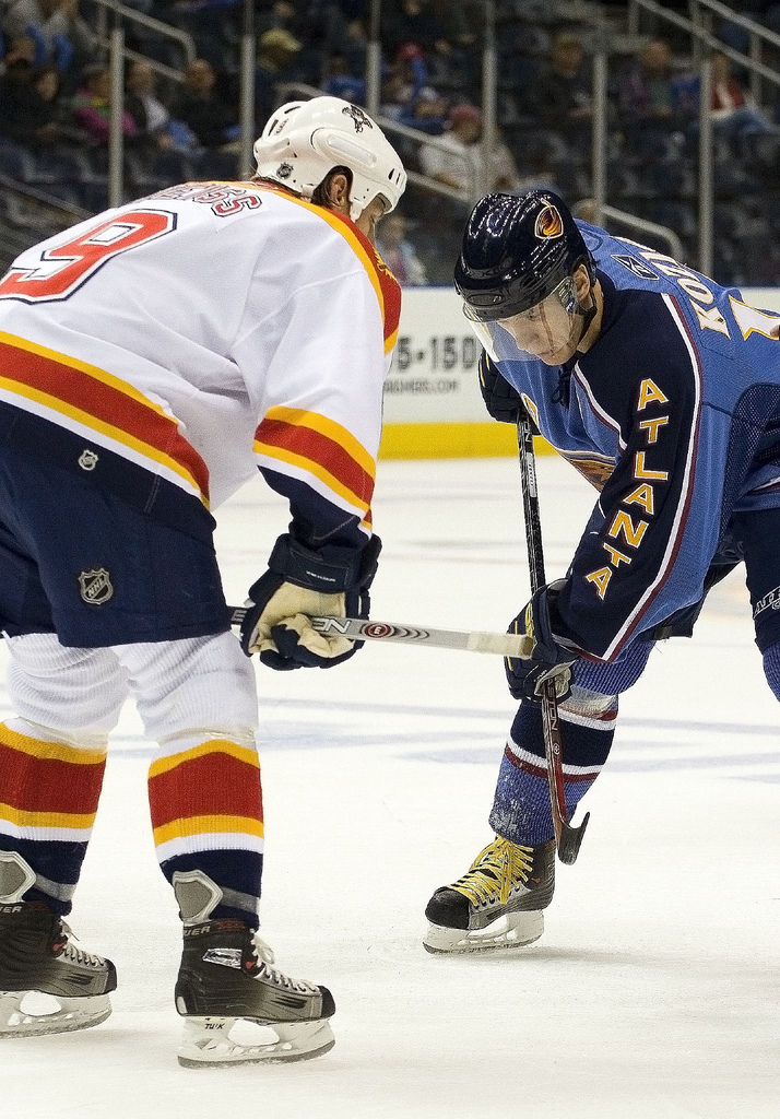 Stephen Weiss (Florida Panthers ) vs. Kozlov Vyacheslav Kozlov (Atlanta Thrashers)